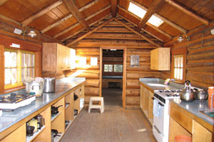 Elizabeth Parker Hut - Kitchen View